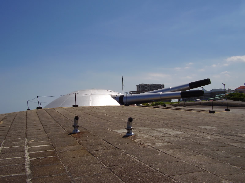 My own work - Brazilian army museum in Copacabana